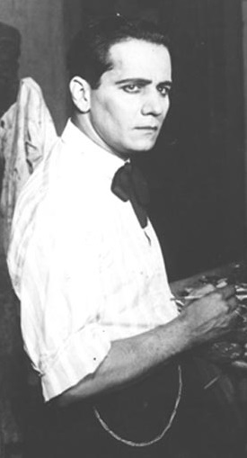 Felipe Farah- actor argentino